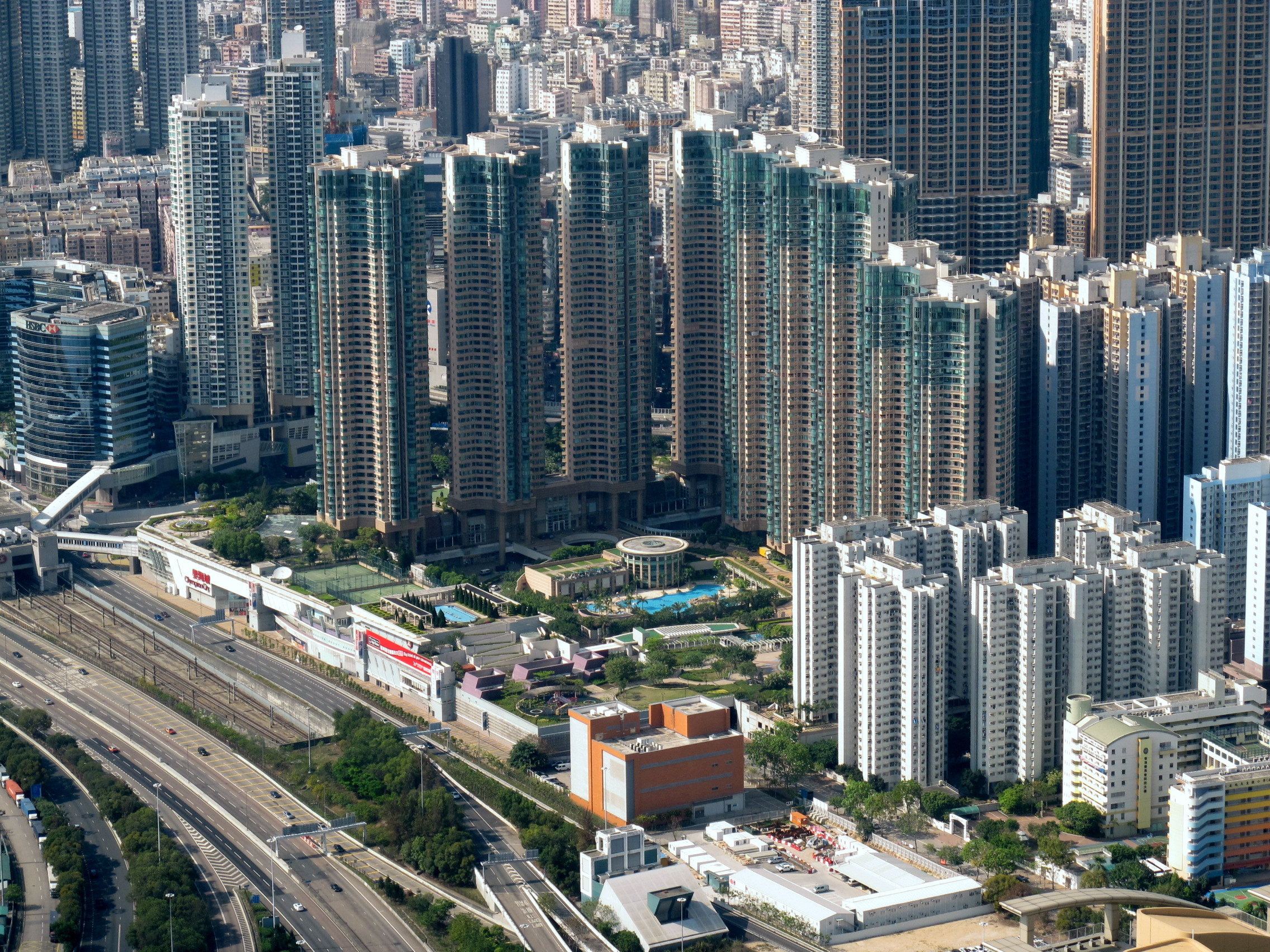 Park Avenue & Central Park 柏景灣及帝柏海灣